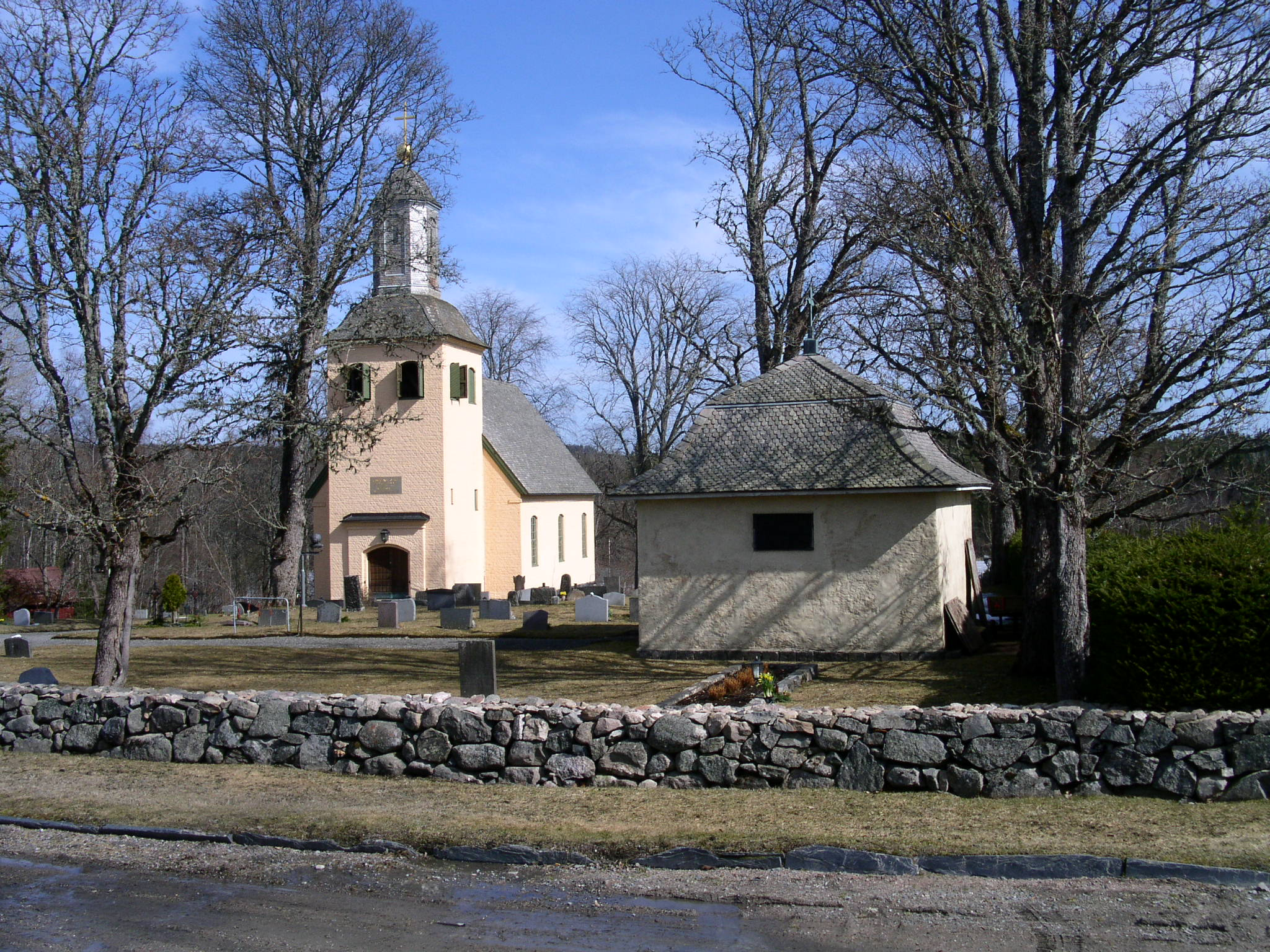 Gåsborn Church, Filipstads municipality, Sweden